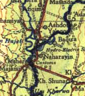 Portion of map annexed to 1949 Israel-Jordan armistice agreement.